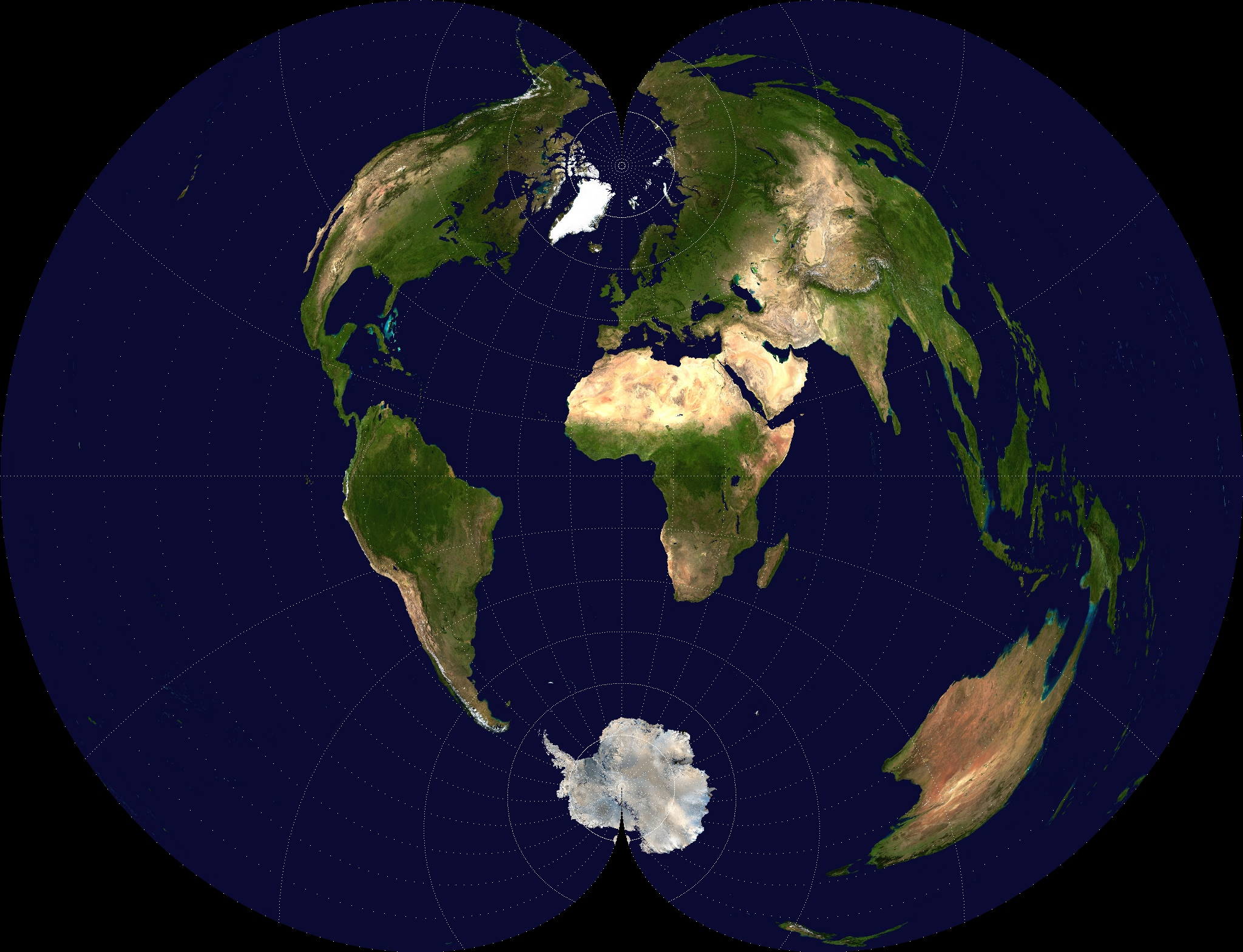 A Polyconic projection of a Visible Earth image collected by the Earth Observatory experiment of the U.S. Government's NASA space agency. The reticle is 15 degrees in latitude and longitude.